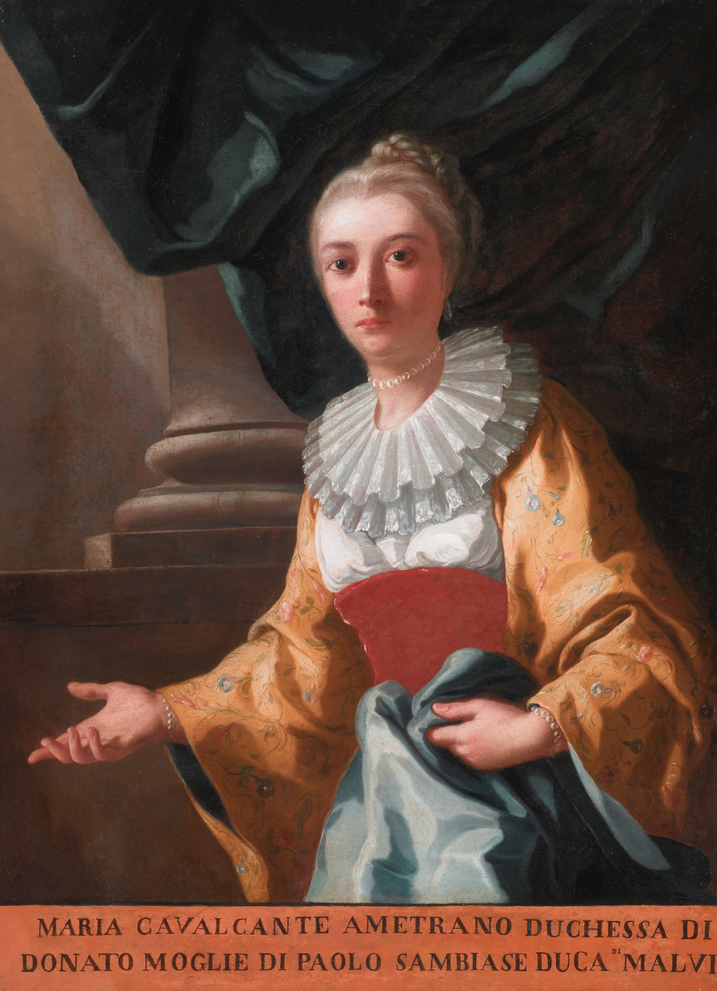 Maria Cavalcanti Ametrano (before 1732-1764), Dutchess of San Donato